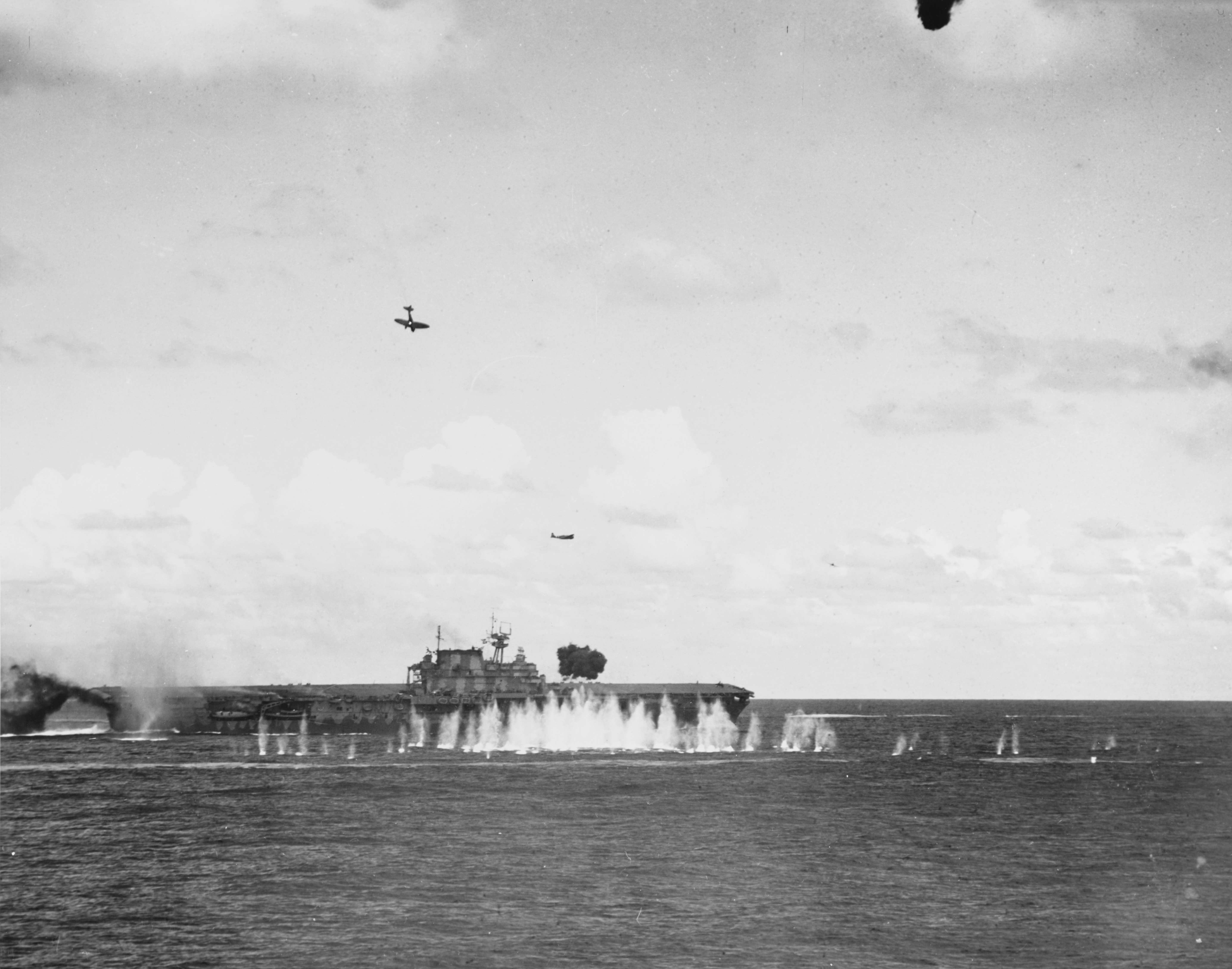 A Japanese Type 99 Aichi D3A1 dive bomber (Allied codename "Val") trails smoke as it dives toward the U.S. Navy aircraft carrier USS Hornet (CV-8), during the morning of 26 October 1942. This plane struck the ship's stack and then her flight deck. A Type 97 Nakajima B5N2 torpedo plane ("Kate") is flying over Hornet after dropping its torpedo, and another "Val" is off her bow. Note anti-aircraft shell burst between Hornet and the camera, with its fragments striking the water nearby.